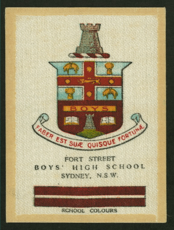 Author:George Arents Tobacco Cigarette Cards Date created: c. 1920 Image title:Fort Street Boys' High School. Source: The New York Public Library Digital Gallery Description: Cigarette Card collector series featuring Crests and colours of Australian Universities, colleges and schools: Fort Street Boys' High School.